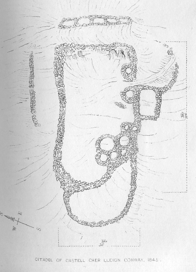 Hut Circles, Caer Lleion, Conway. Harry Longueville Jones, . Arch Camb, 1846 73